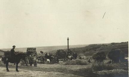 Haymaking in the region of Vidin